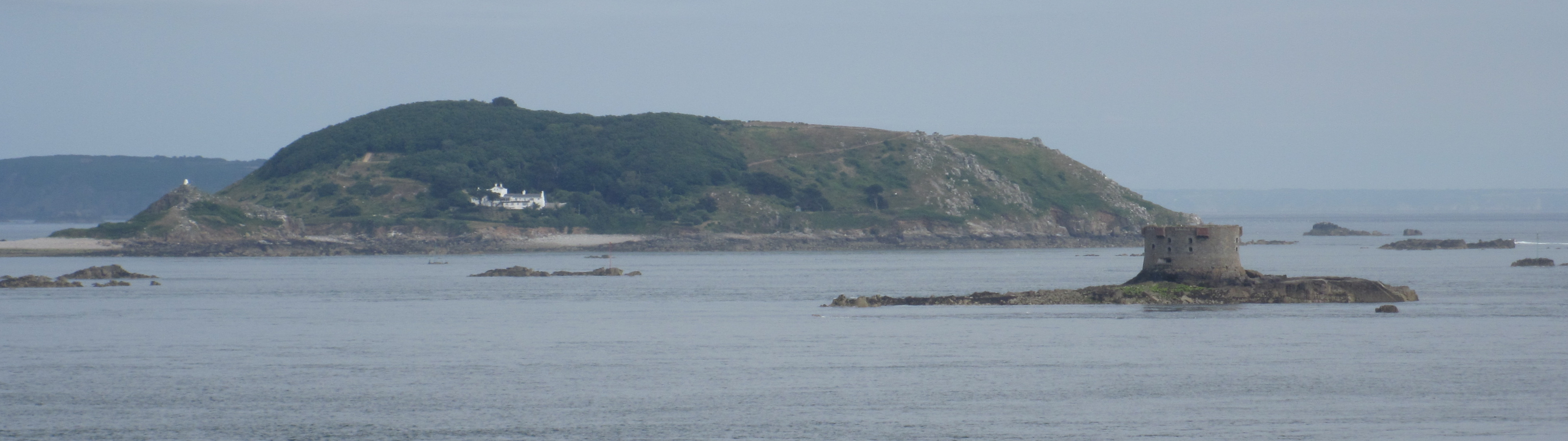 Guernsey, 2 July 2010: Jethou